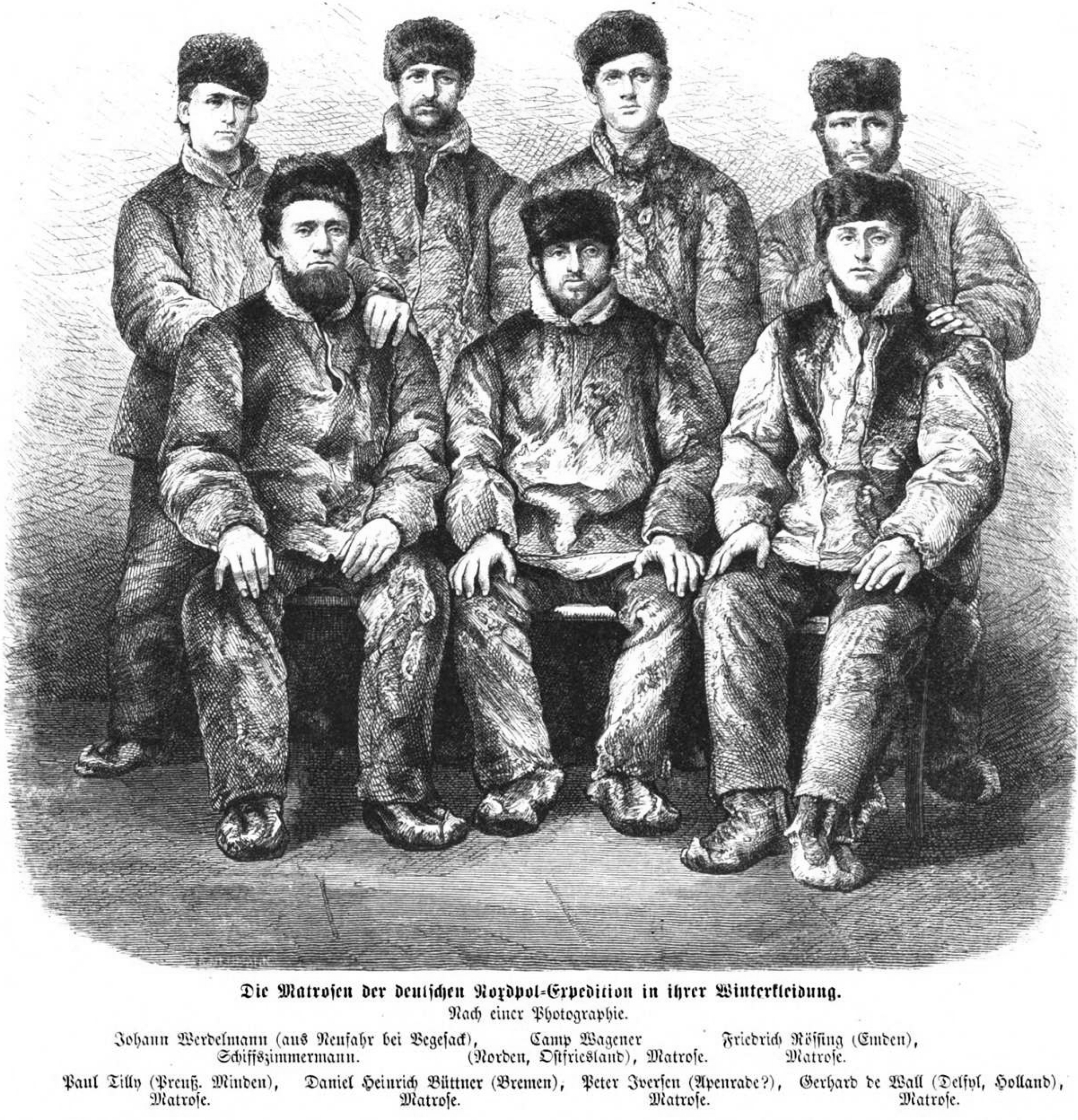 caption: "Die Matrosen der deutschen Nordpol-Expedition in ihrer Winterkleidung.Nach einer Photographie.Johann Werdelmann (aus Neufahr bei Vegesack), Schiffszimmermann. Camp Wagener (Norden, Ostfriesland), Matrose. Friedrich Rössing (Emden), Matrose.Paul Tilly (Preuß. Minden), Matrose. Daniel Heinrich Büttner (Bremen), Matose. Peter Iverseu (Apenrade?), Matrose. Gerhard de Wall (Delfyl, Holland), Matrose."